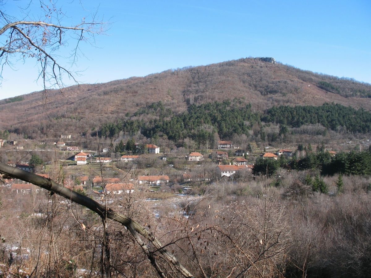 View on Rtanj village in Boljevac Municipality, near Zaječar, Serbia.